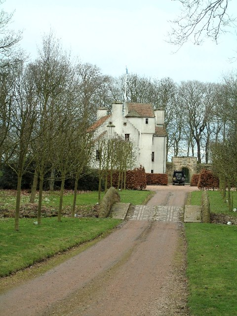 Wormiston House. Looking up the main drive from the access road